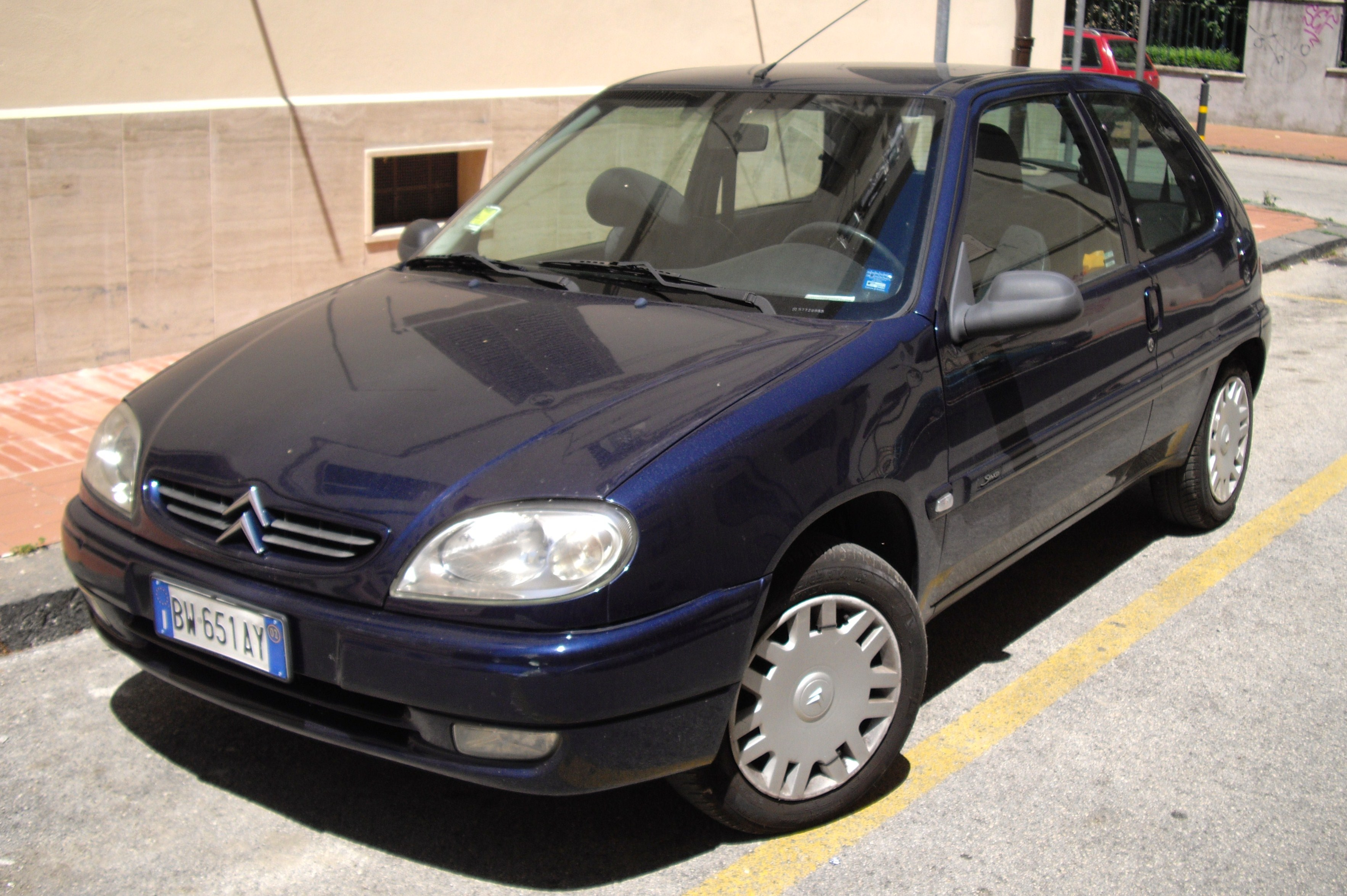 Citroën Saxo